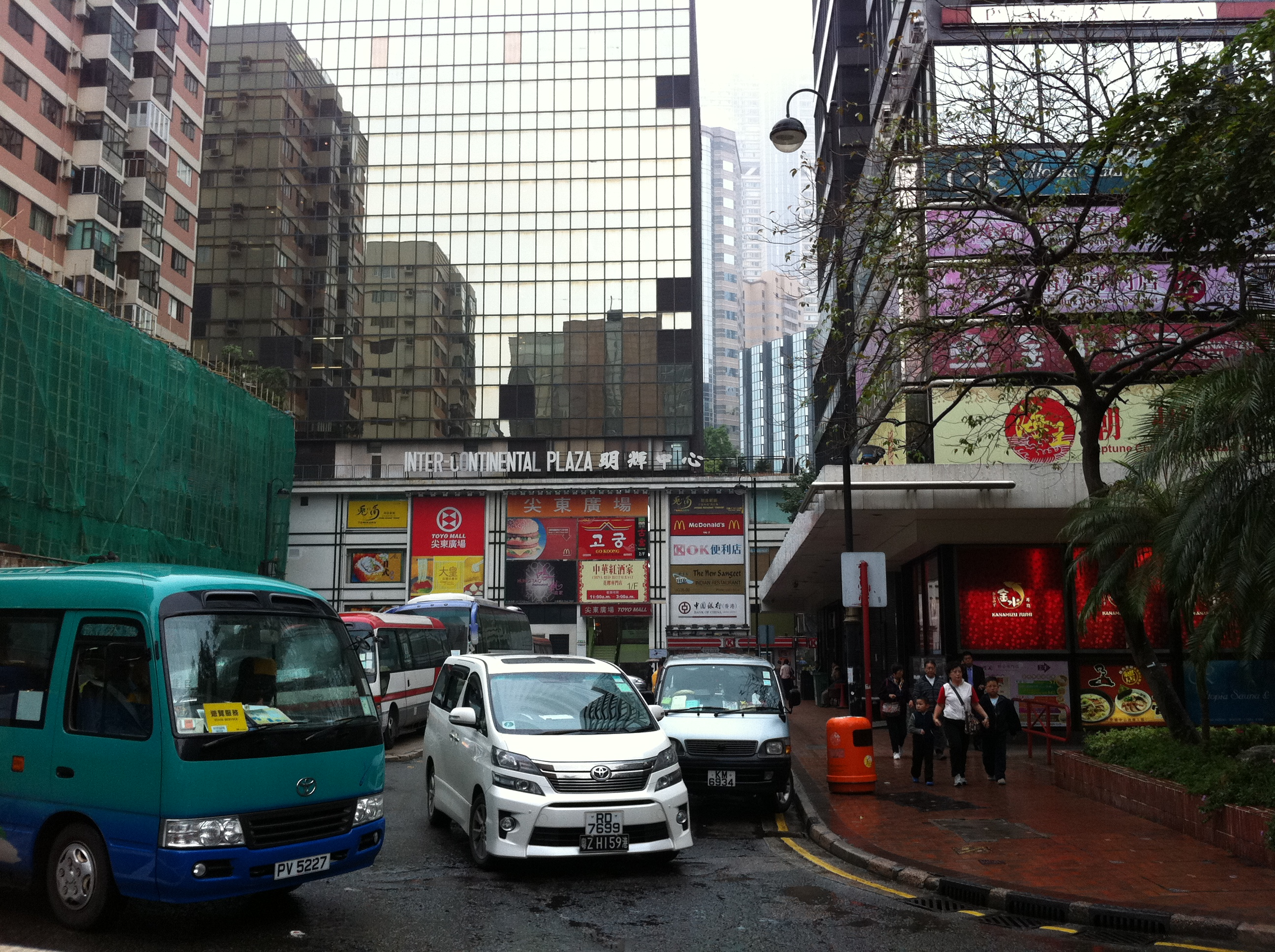 尖東 加連威老廣場, Granville Square, Tsim Sha Tsui East, Hong Kong